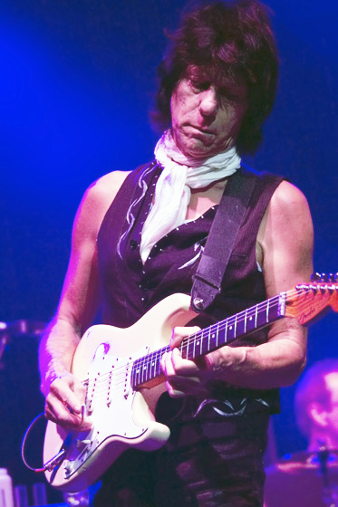 Jeff Beck at the Palais, Melbourne, Australia 26th January 2009 See the full gallery: [1].